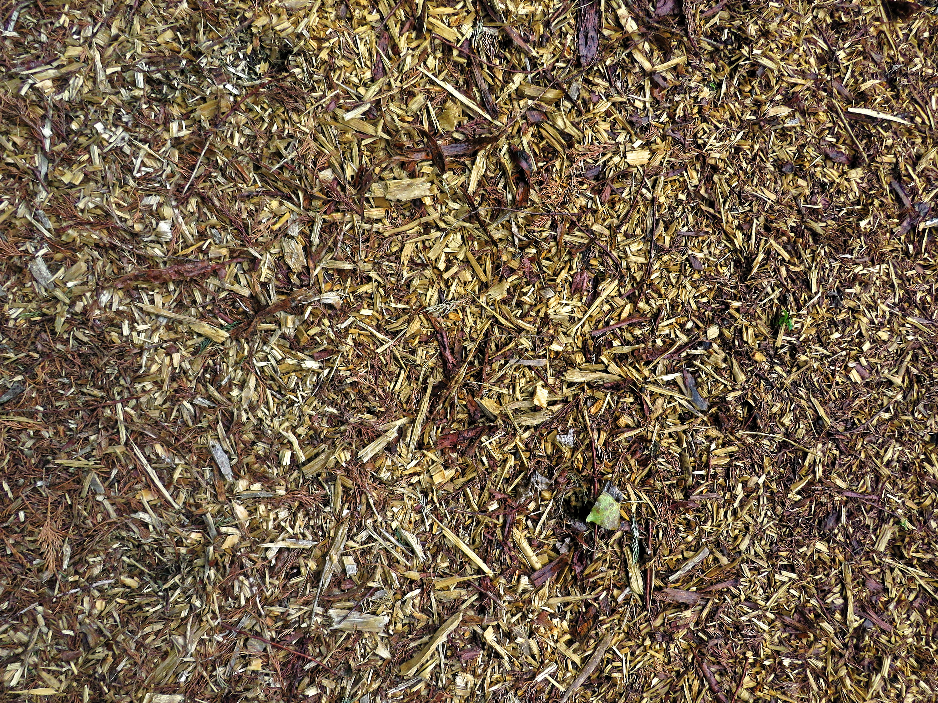 Six-week old wood chippings from felled pines (dry on left, wet on right), in the civil parish of Hatfield Broad Oak, Essex, England.Camera: Canon PowerShot SX60 HSSoftware: File lens-corrected, optimized, perhaps cropped, with DxO OpticsPro 11 Elite, and likely further optimized with Adobe Photoshop CS2.